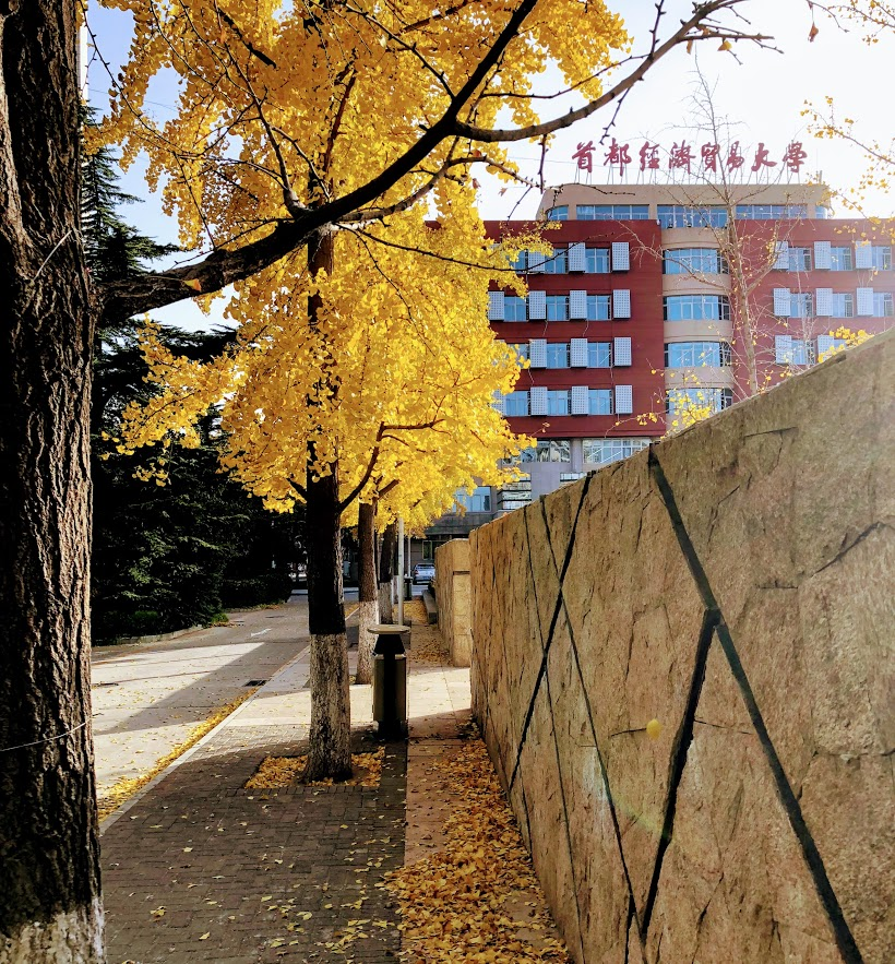 Main Campus Library